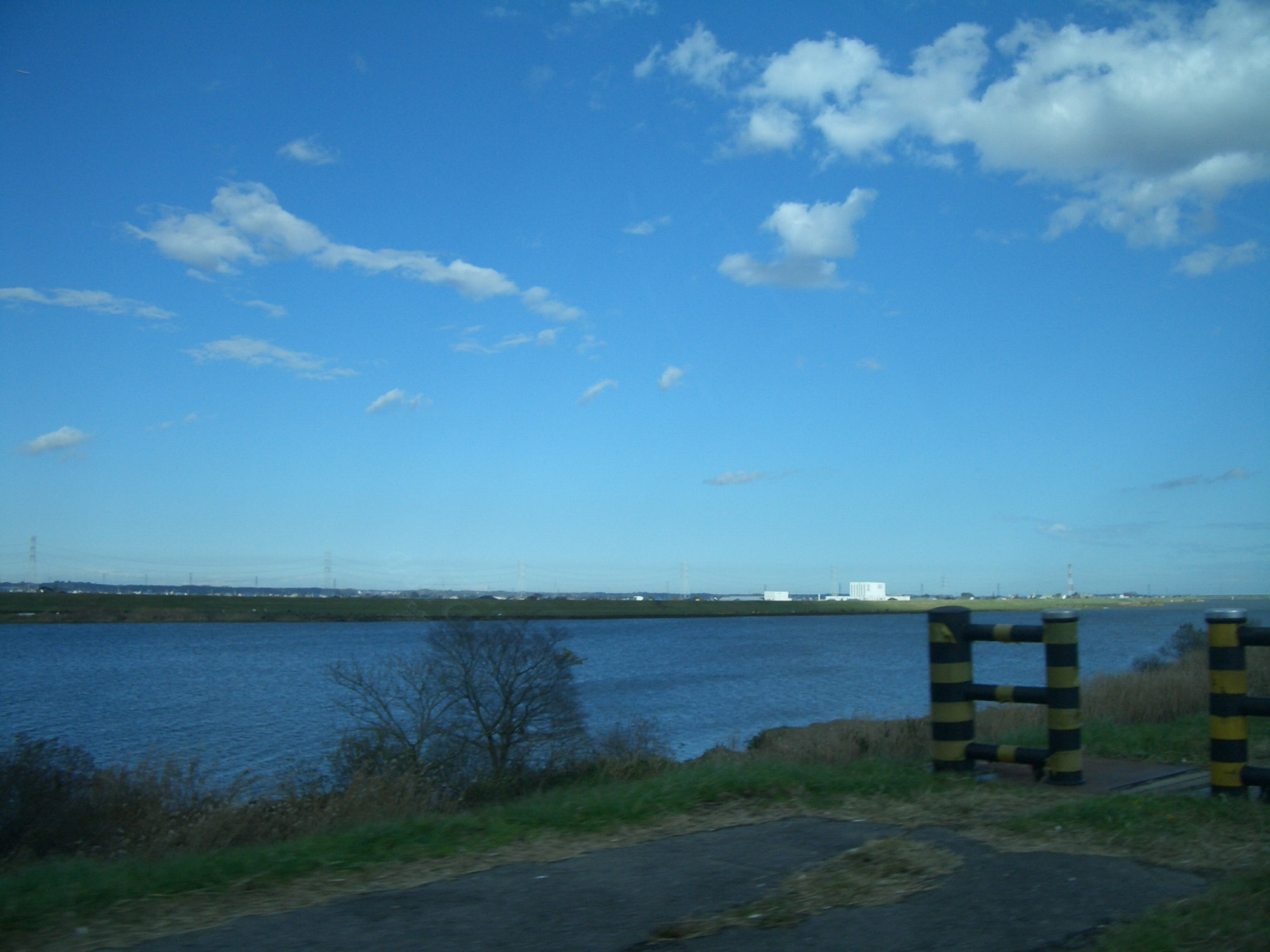 Tone River